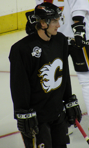 2005 Calgary Flames first round draft pick Matt Pelech at the Flames rookie camp.